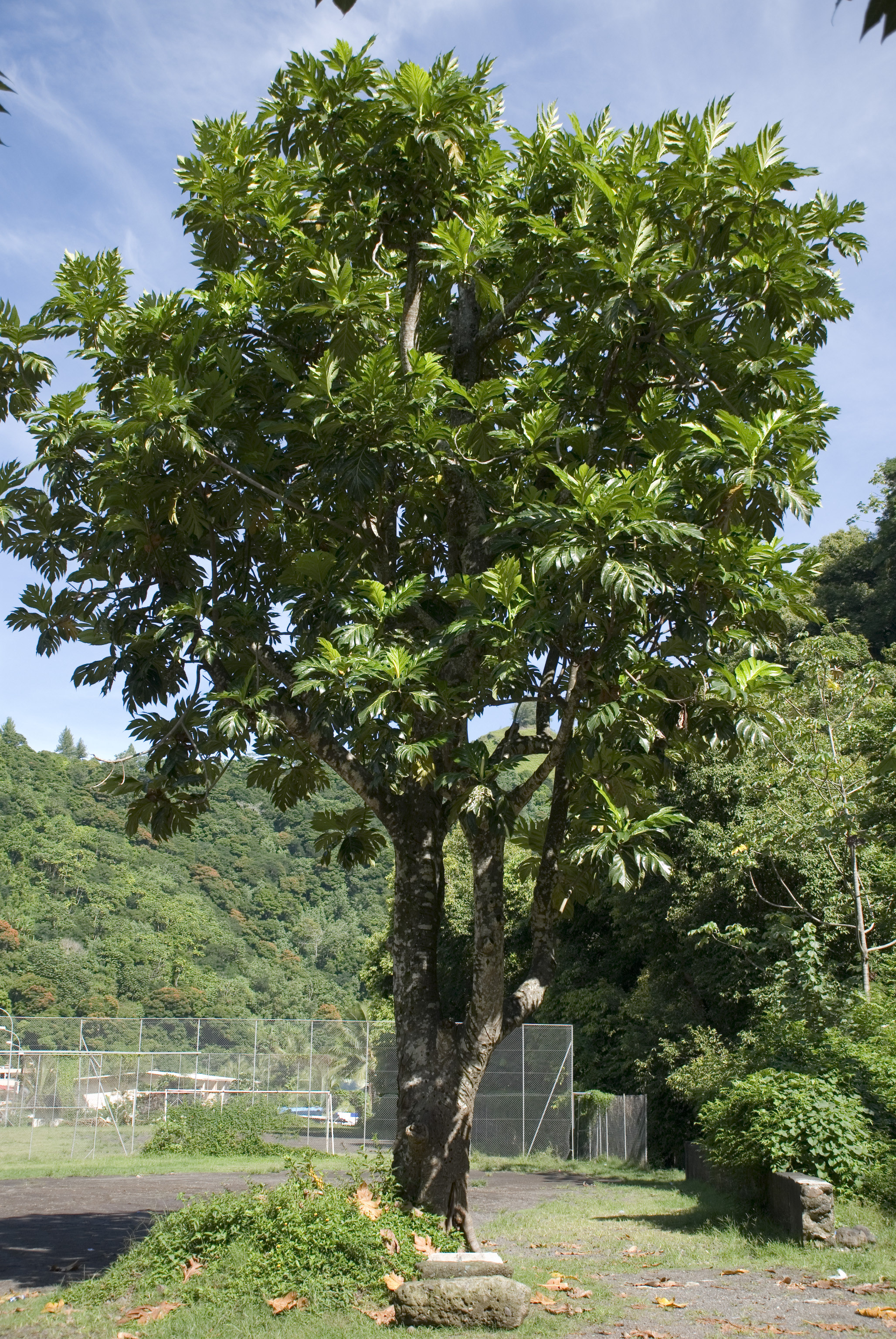 Breadfruit Tree Artocarpus altilis in Bain Loti, Tahiti. Camera data Camera Nikon D80 Lens Nikon AF-S DX 18-135 mm Focal length 26 mm Aperture f/3.8 Exposure time 320 s Sensivity ISO 100